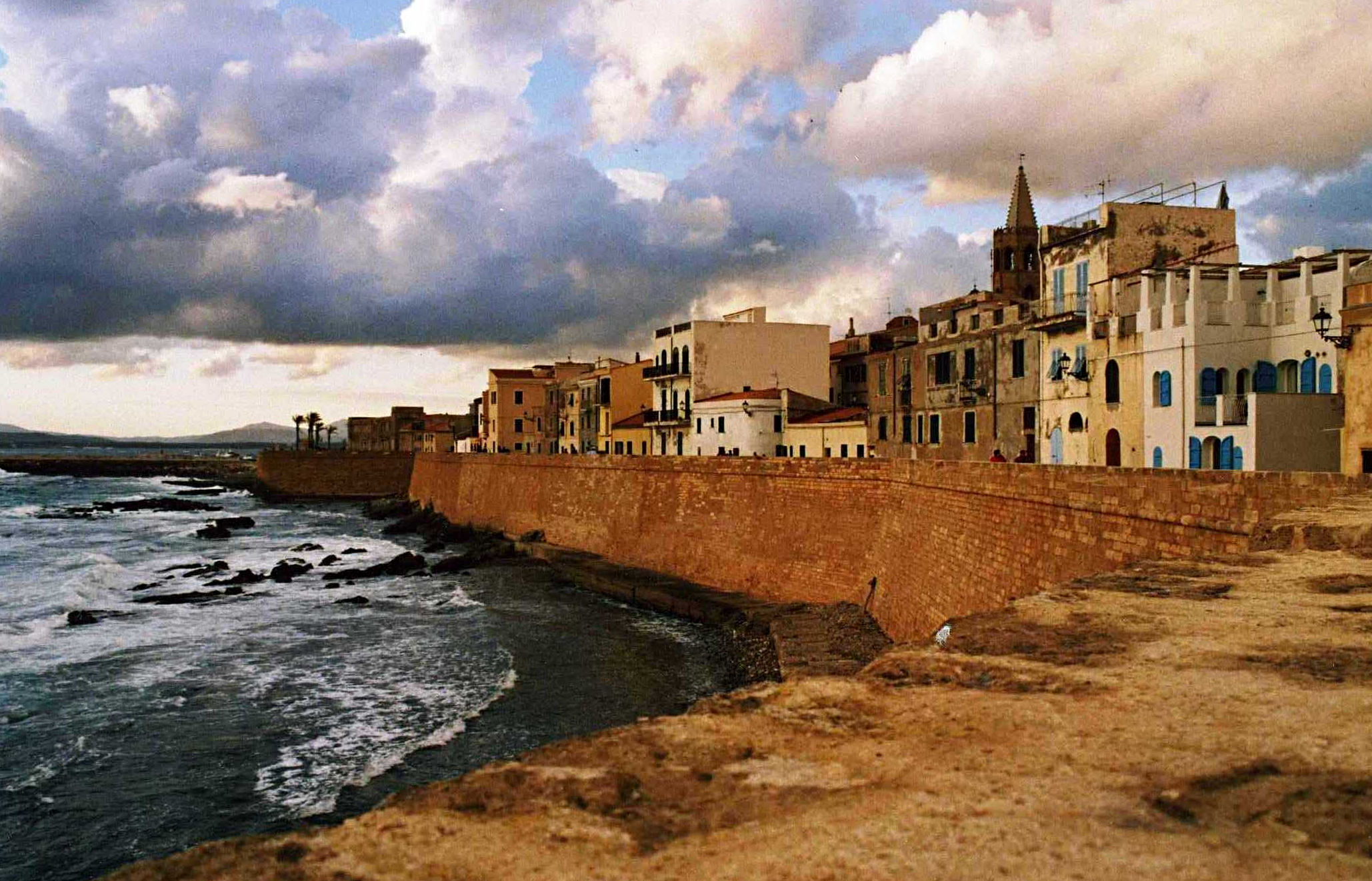 16th century Catalan city walls, Alghero, Sardinia